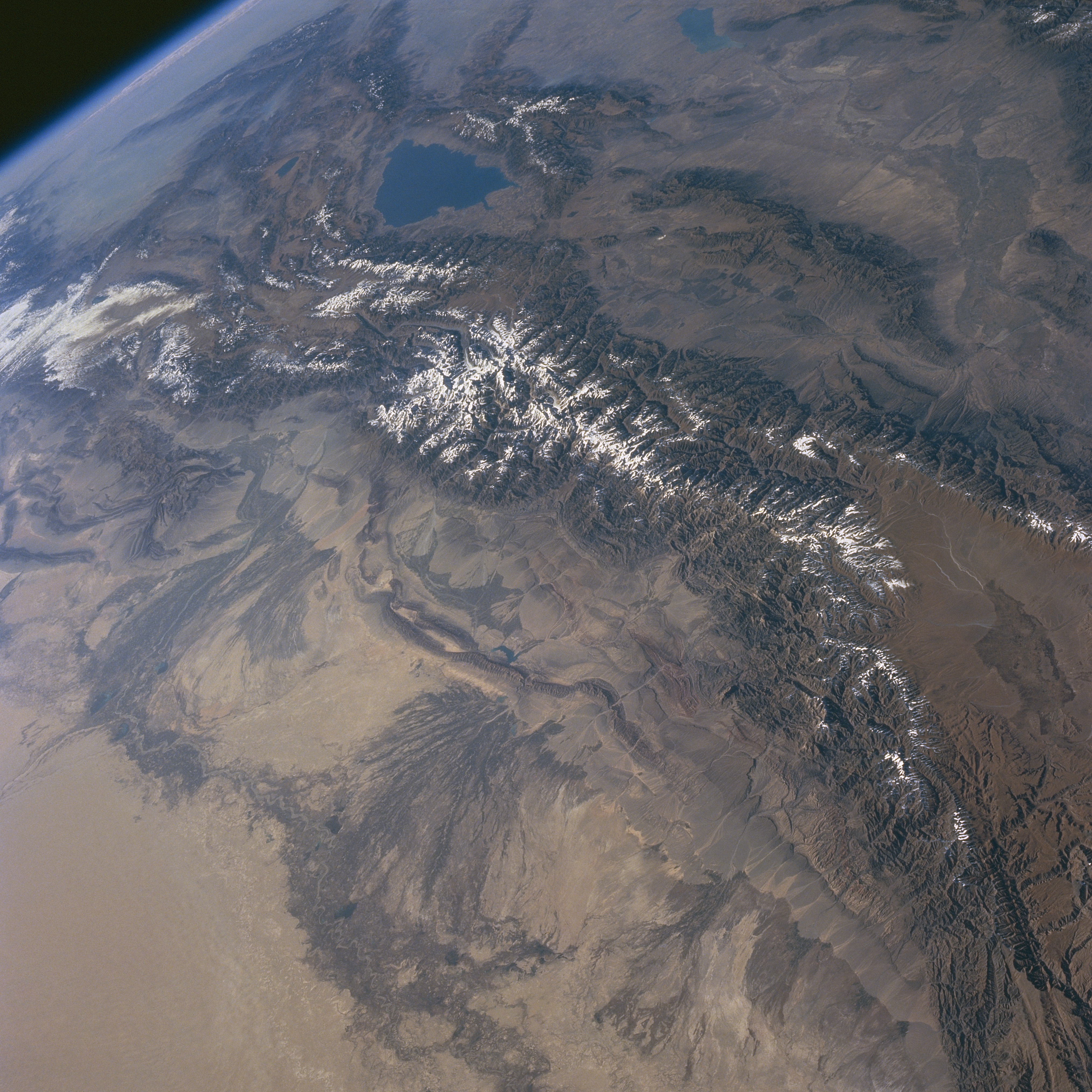 Tien Shan Mountains, China - October 1997 image description here